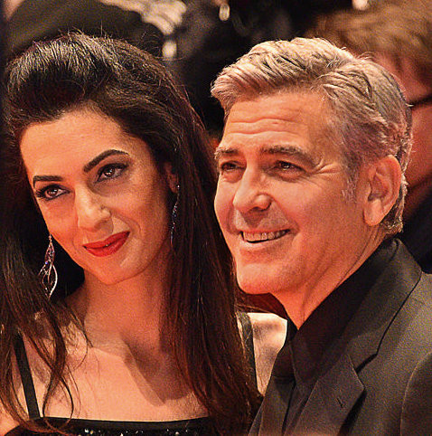 'Hail, Caesar!' Premiere during the 66th Berlinale International Film Festival on February 11, 2016 in Berlin, Germany. February in Berlin is all about film: international stars on the red carpet, enthusiastic fans from around the world – and, above all, some great films. Around 400 films are shown at the Berlinale and tickets are available for everyone, because the Berlinale is the world’s largest public film festival. For ten days, the festival features films that inspire, touch and let you discover new worlds. More Photos At